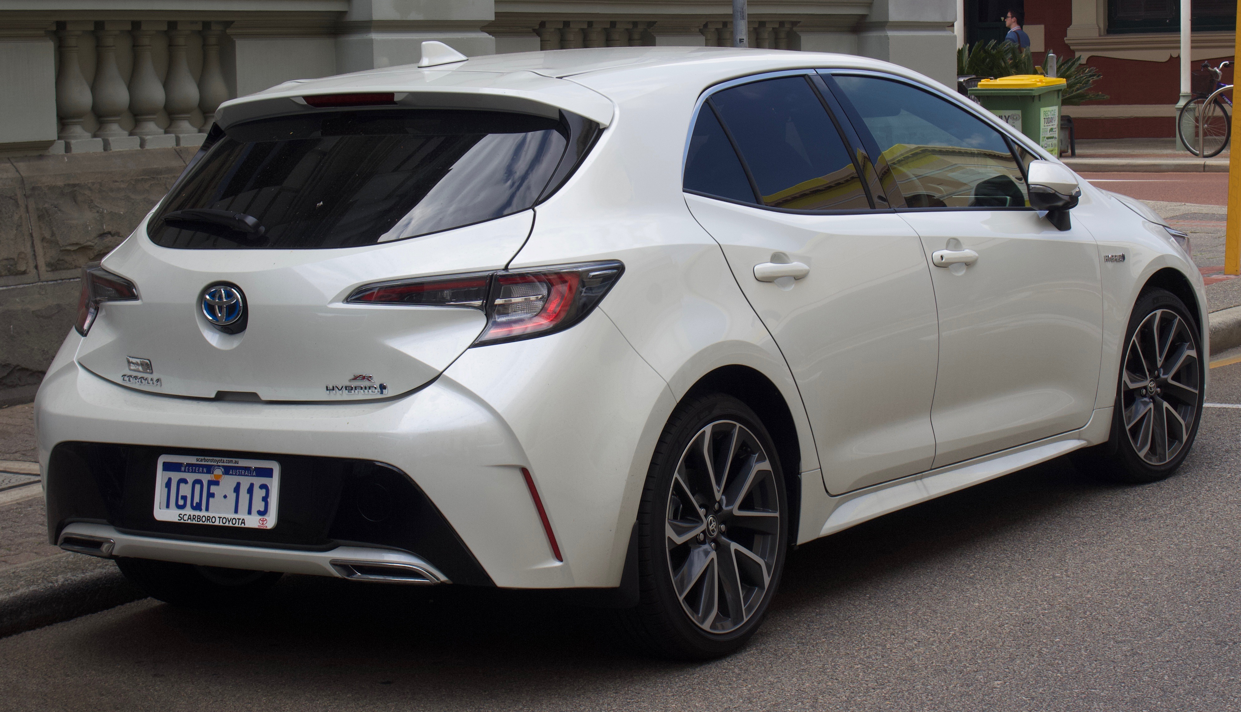 2018 Toyota Corolla (ZWE211R) ZR hybrid hatchback. Photographed in Fremantle, Western Australia, Australia.